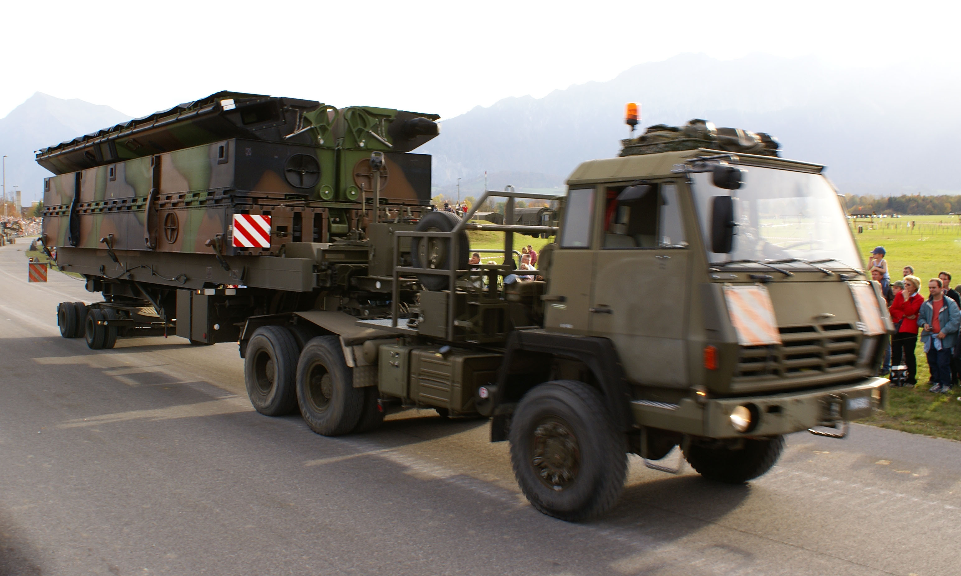 Swiss Army. Pontoon bridge 95. Participating in the "Steel Parade" of the 2006 Army Days, Thun.